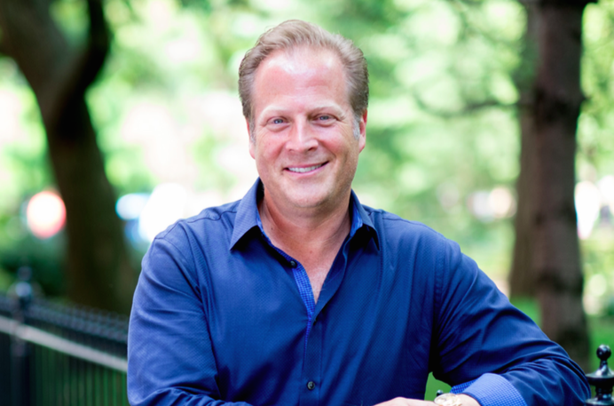 Richard Hendler_NYU Professor_Lawyer_Headshot